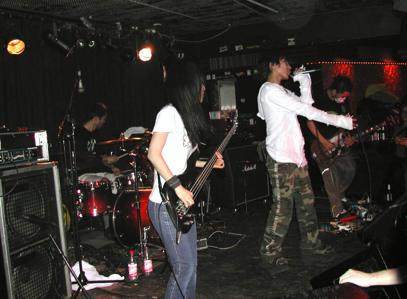 Melt-Banana, japanese music band (noise rock). Live on their "13 Hedgehogs" tour, November 29 2005 22:54 CET, in Frankfurt am Main (Germany) at Cafe "Nachtleben" (german title of the venue means "Night life" in english)